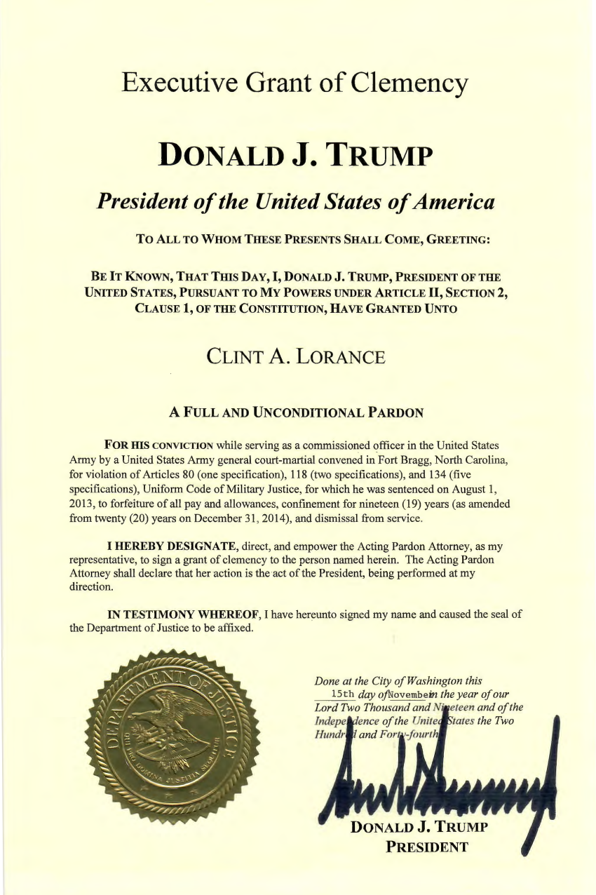 This is the official pardon of Clint A. Lorance, convicted with murder by general court-martial, by President Donald Trump, as given on 15 November 2019. Cropped from the original PDF.